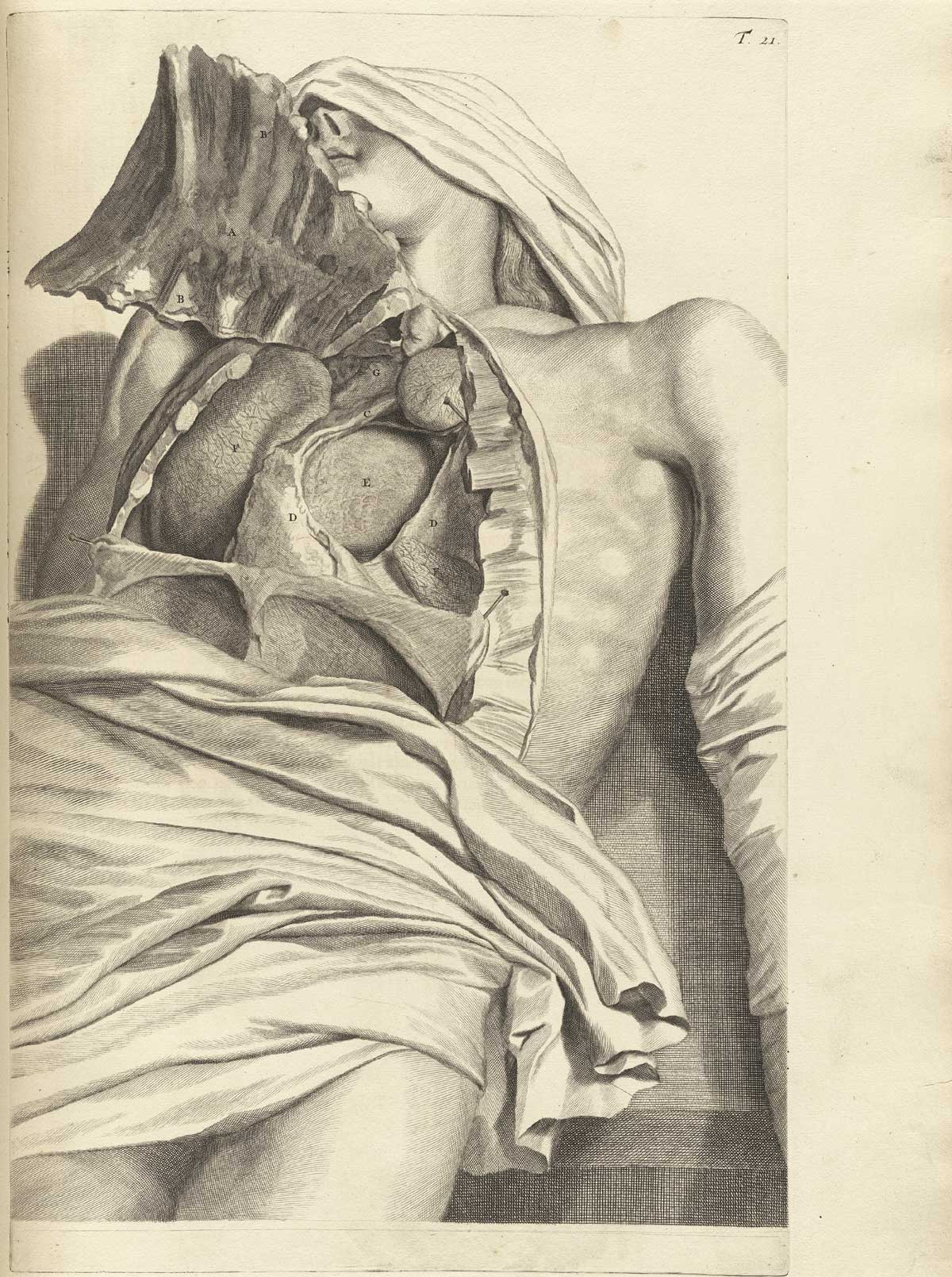 Bidloo, Govard (1649-1713): Ontleding des menschelyken lichaams Amsterdam, 1690. (= dutch language edition of Anatomia humani corporis, 1685)